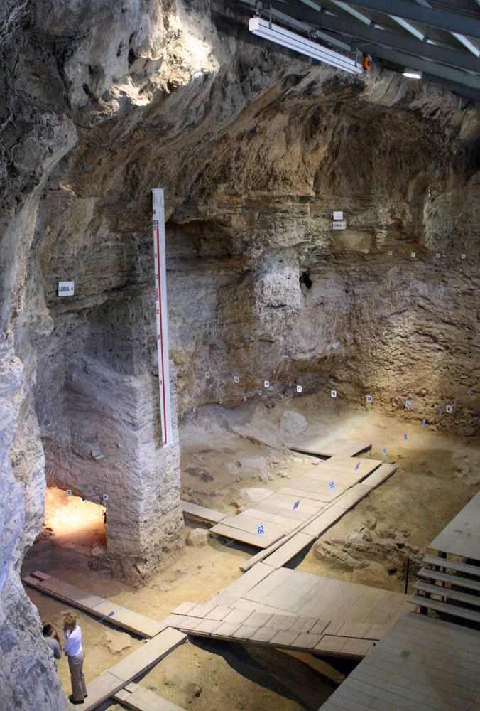 general view of abric Romaní prehistoric site, Capellades, Spain, during the International workshop "The Neanderthal Home: Spatial and Social Behaviours", October 2009